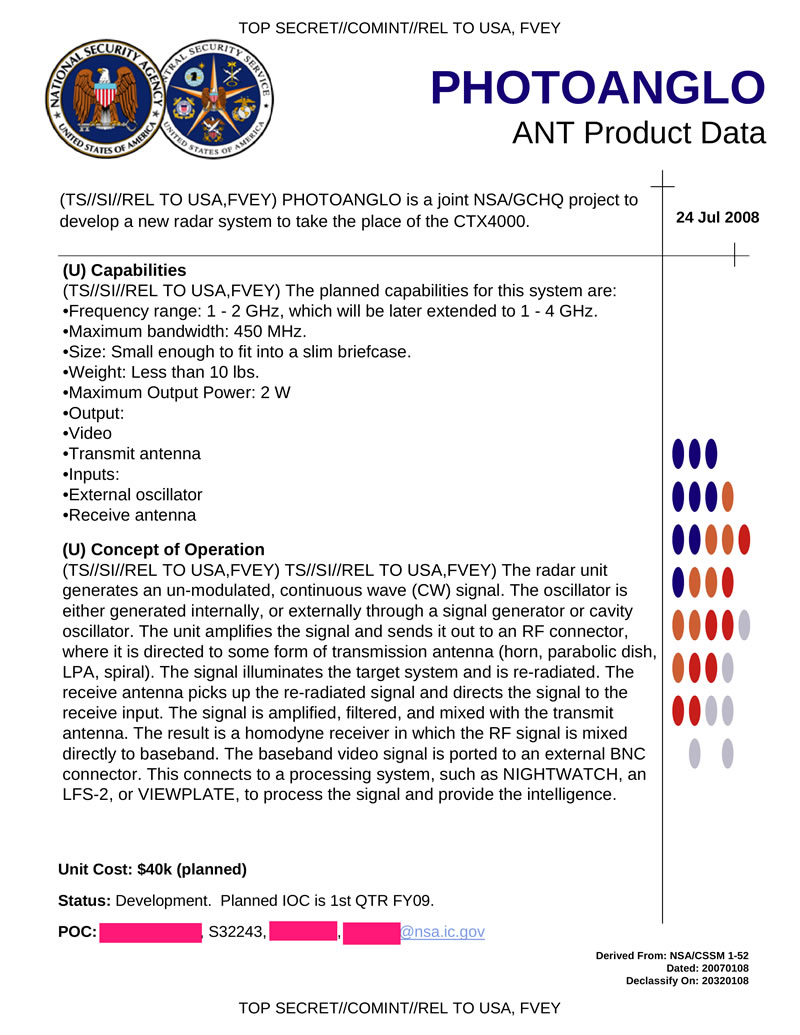 PHOTOANGLO - Successor to the CTX4000. The project was jointly developed by the NSA and Britain's GCHQ agency